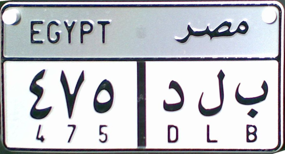 Egyptian license plate for busses